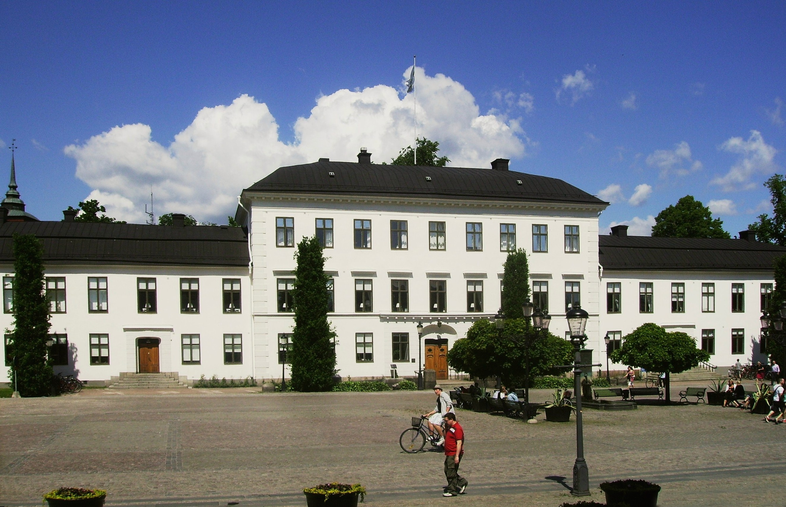 Picture of Södermanlands läns residence buildning